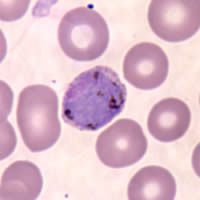 Gametocytes of P. vivax in thin blood smears. Schüffner's dots can be see